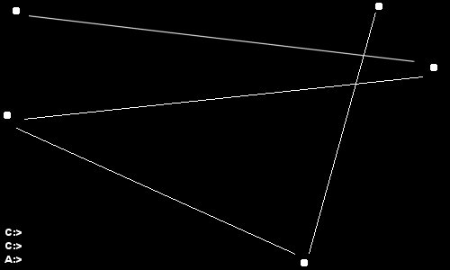 ScreenShots from Virus Action